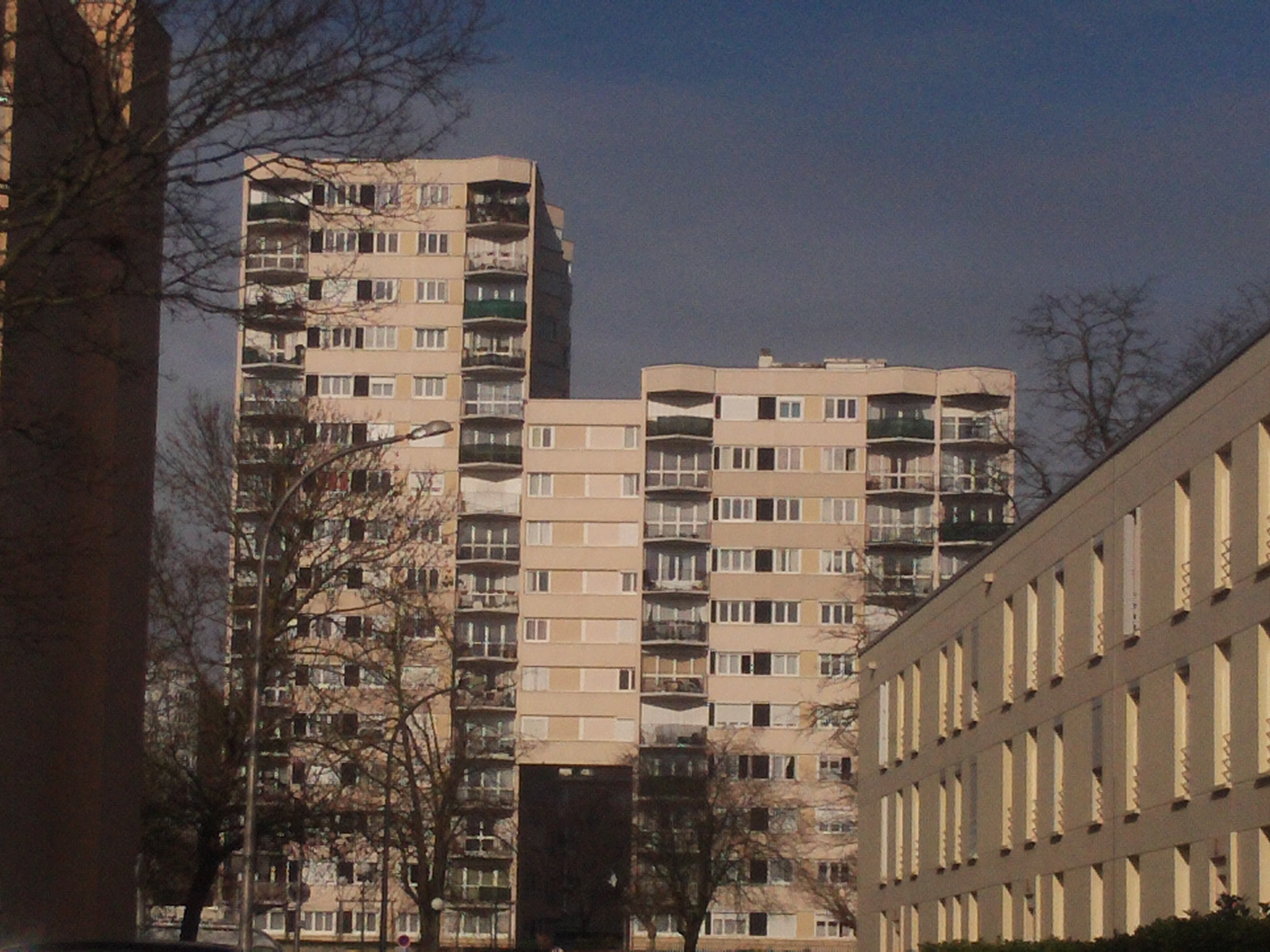 nogent